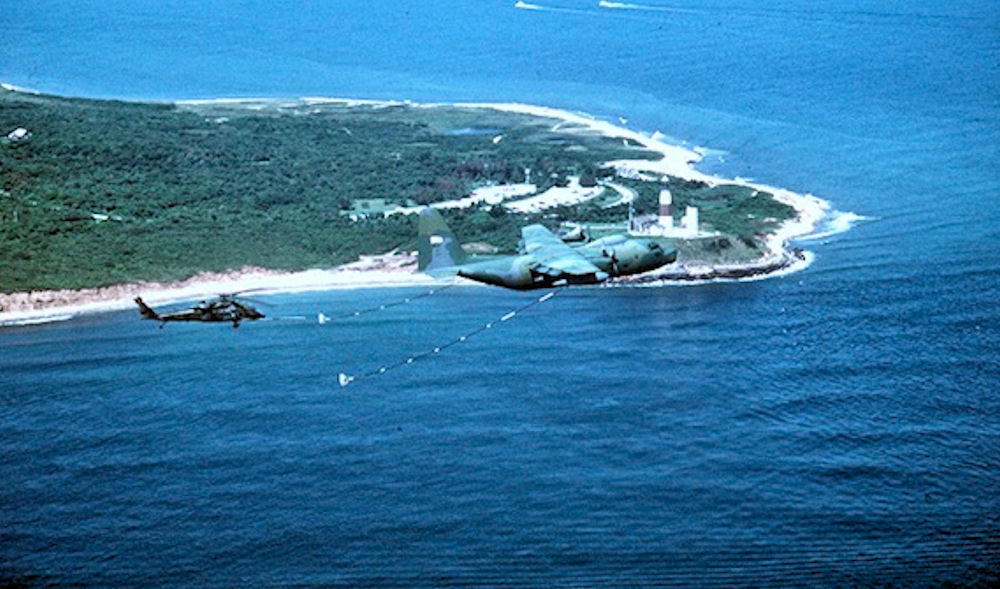 106th Rescue Wing - HH-60 HC-130 rHercules efueling over Montauk Point, Long Island, New York.